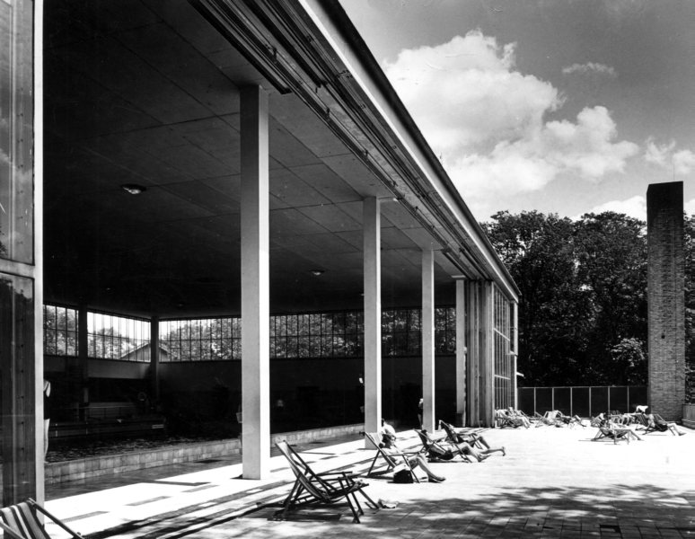 Builing (swimmingpool) by architect Van Loghem, 1933-1934, Haarlem, The Netherlands.